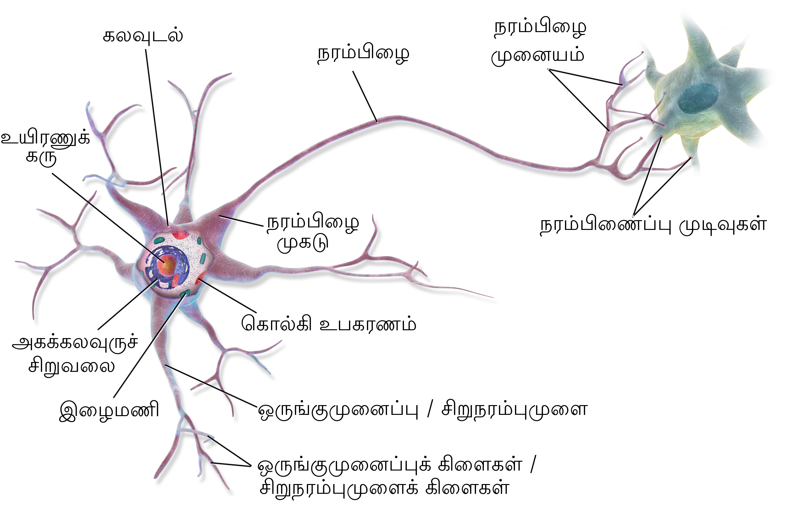 Blausen 0657 MultipolarNeuron-ta